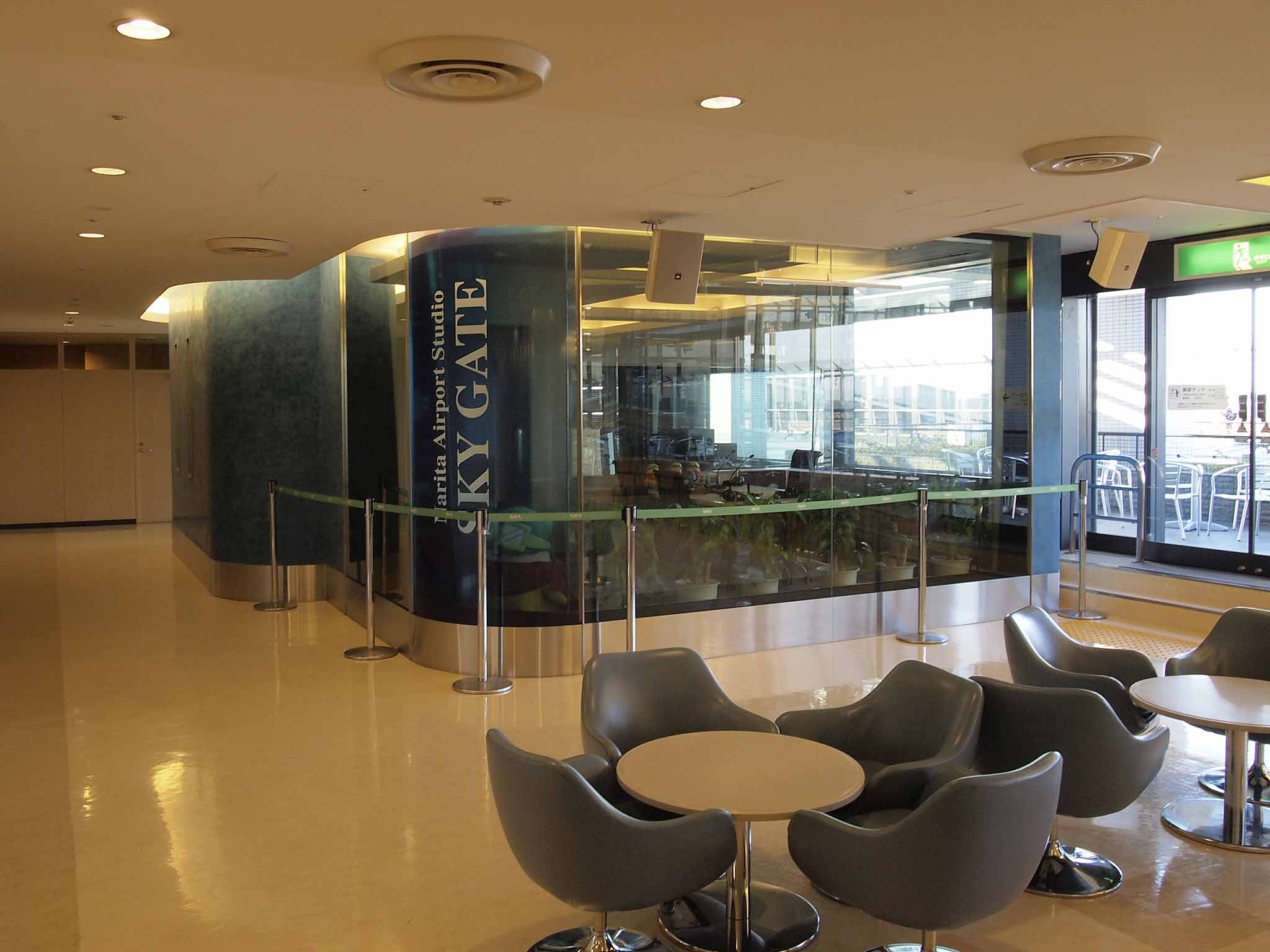 Studio Sky Gate in Narita International Airport Terminal 1, Former satellite studio for bayfm.